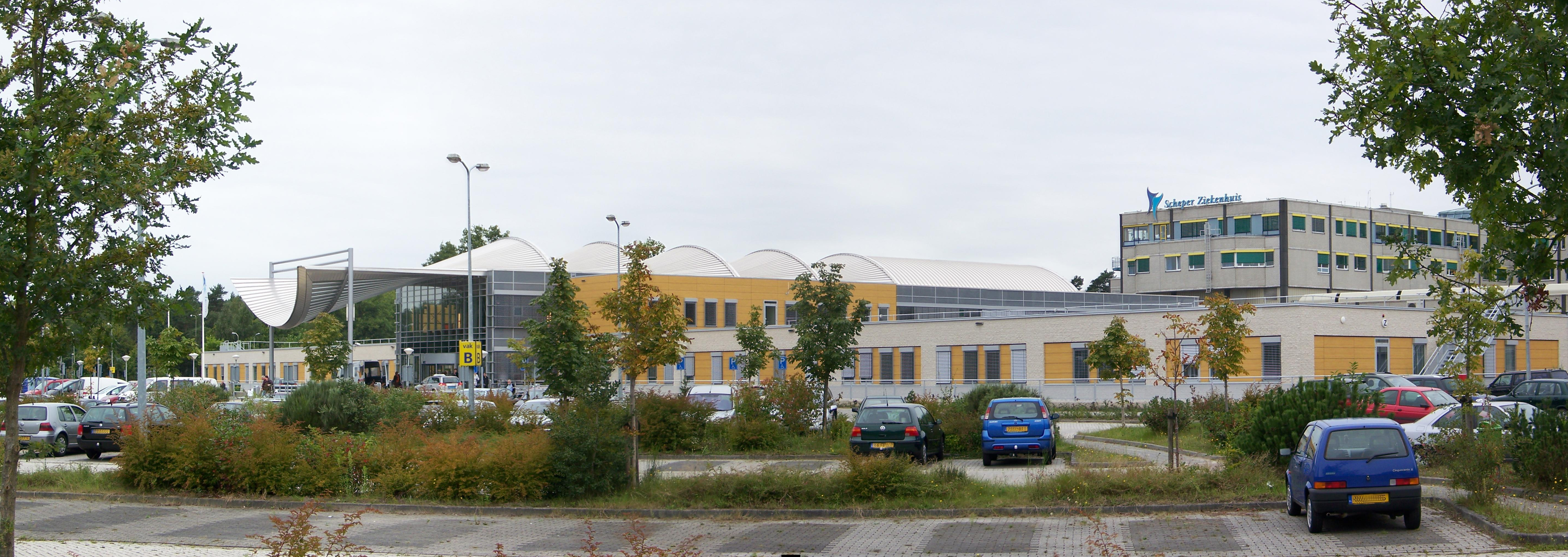 Scheper Hospital in Emmen